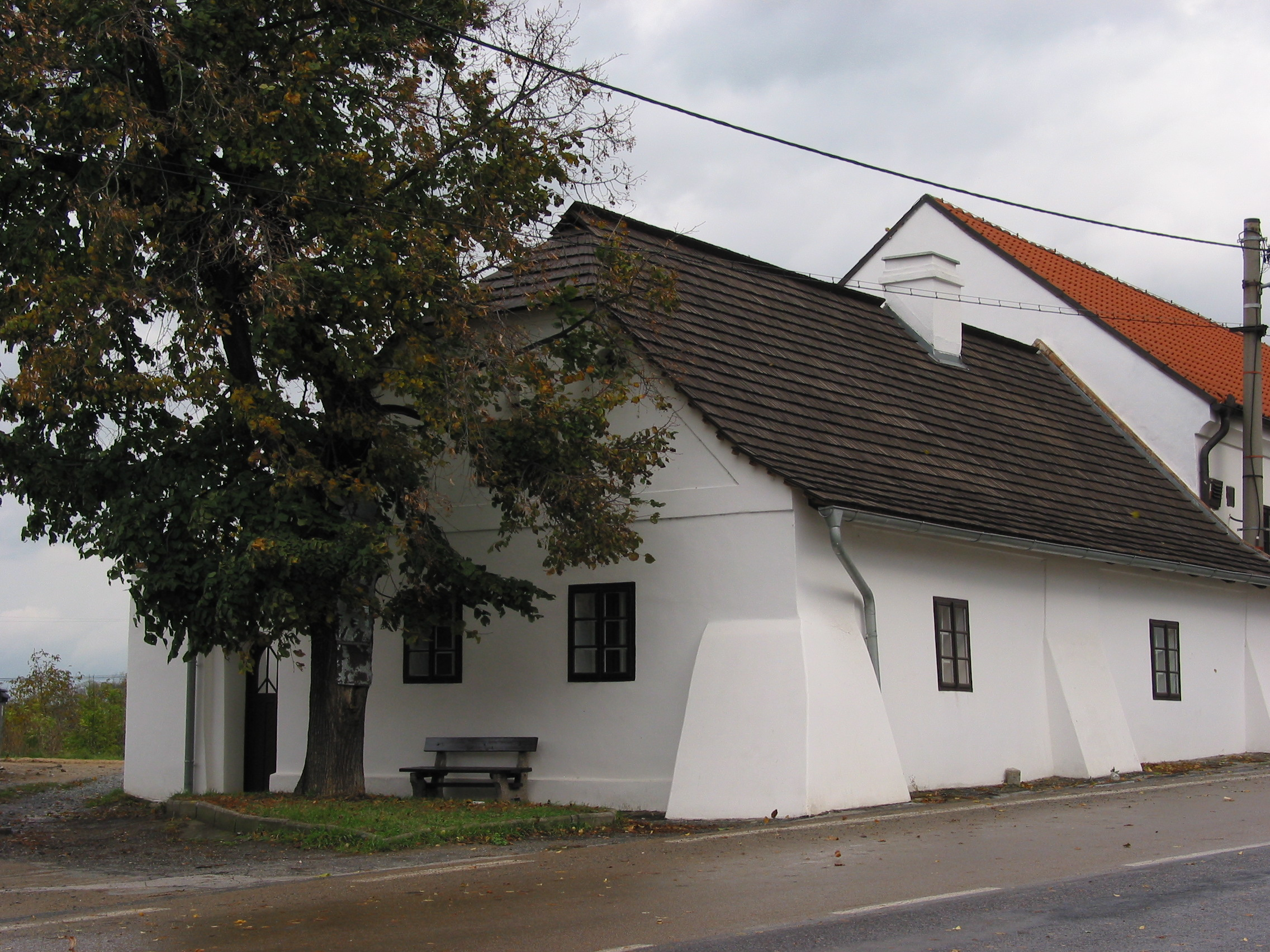 Birthhouse of Czech writer Vítězslav Hálek in Dolínek (today part of Odolena Voda), Czech Republic.